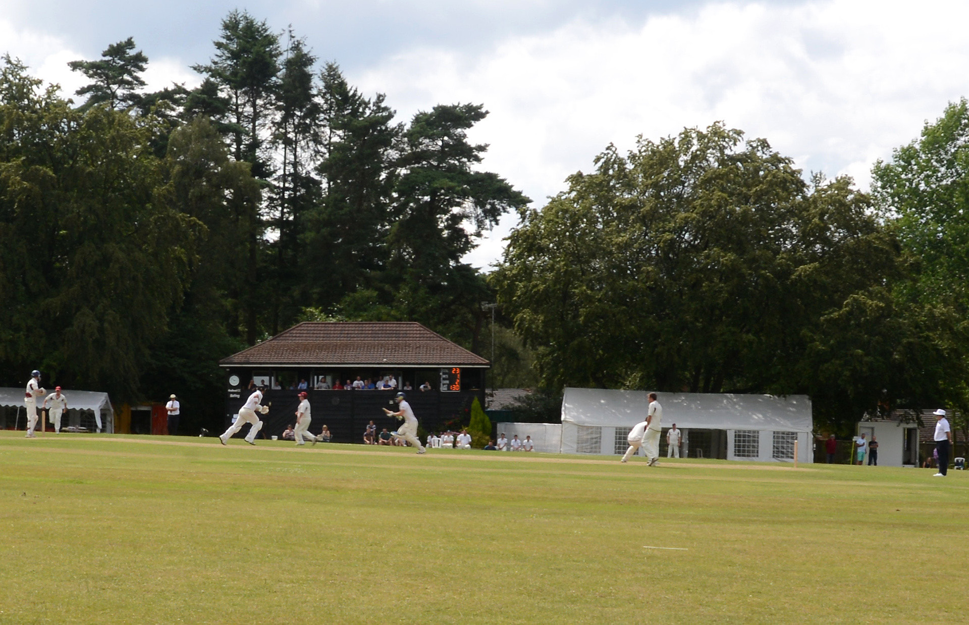 Cricket cup final at Hindhead playing fields, Marchants Hill